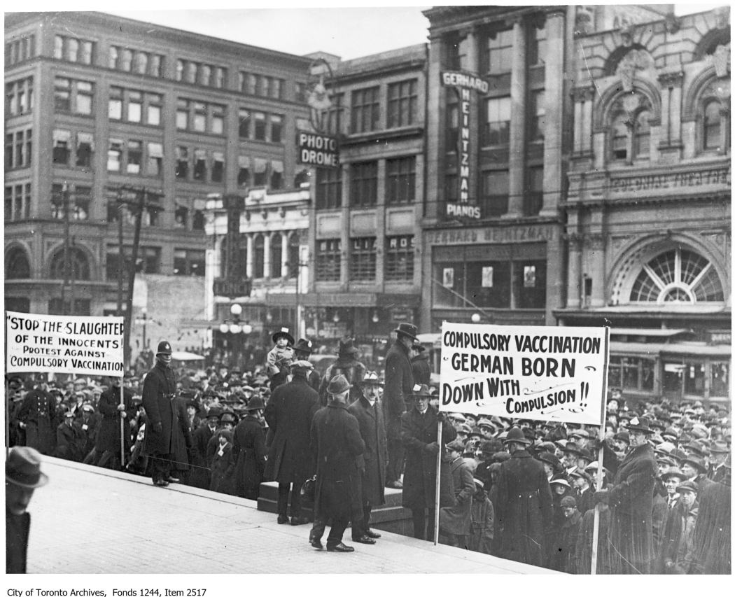 Rally of the Anti-Vaccination League of Canada City of Toronto Archives